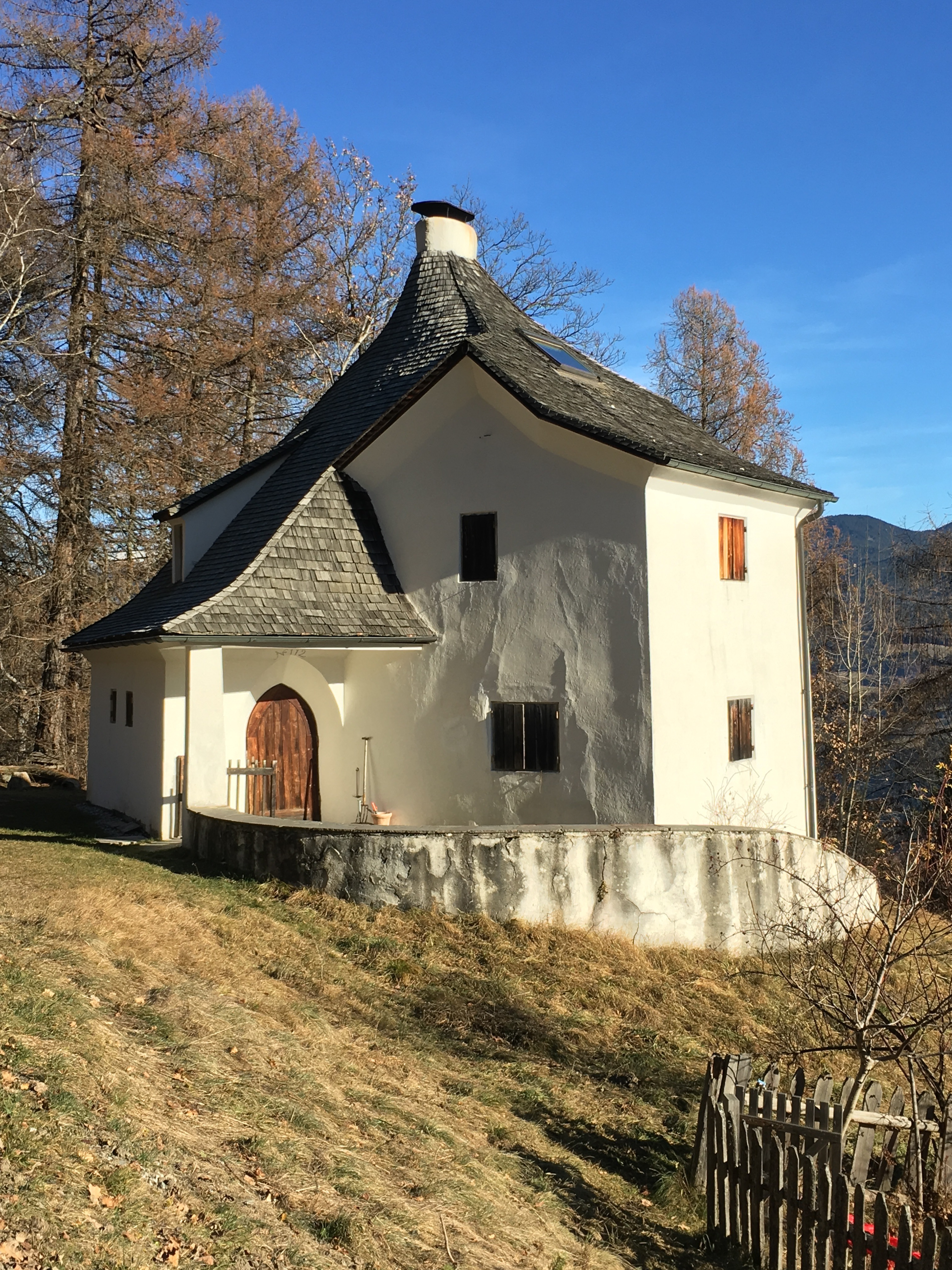 Lois Welzenbacher, House Settari, Bad Dreikirchen, Bolzano, Italy (2017)